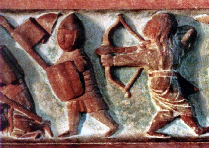 Lithuanians fighting Teutonic Knights.Evolvent of relief.